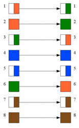 Straight Through Pinbelegung 10/100BASE-T